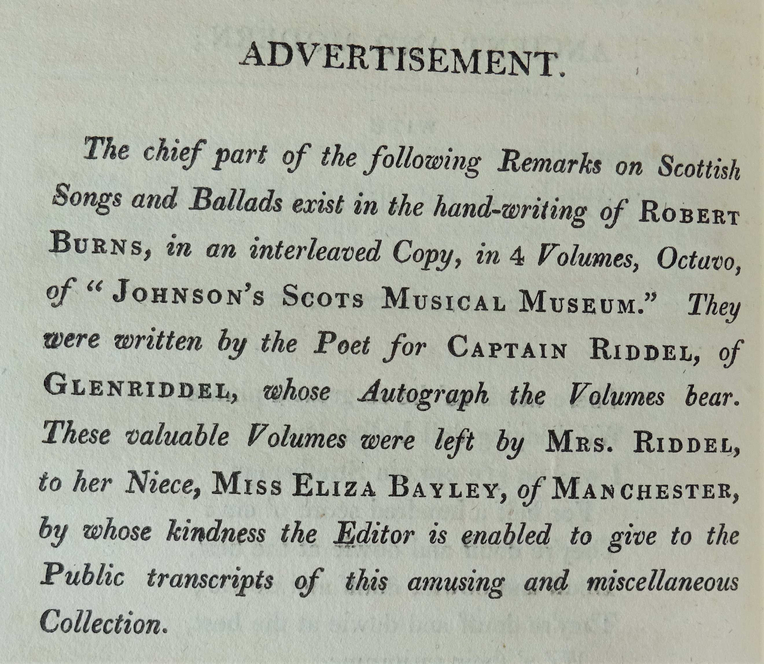 Cromek's Reliques of Burns. Strictures on Scottish Songs and Ballads from the Robert Burns's Interleaved Scots Musical Museum